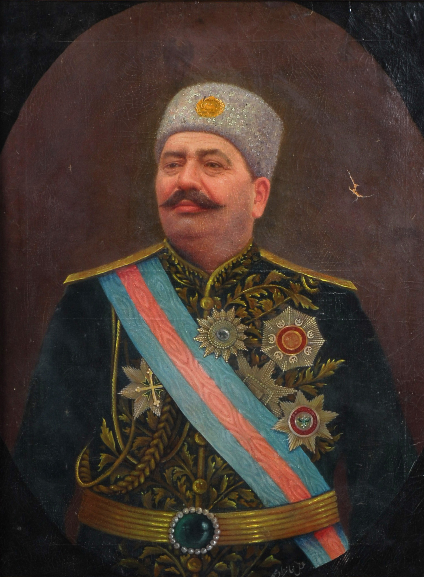 Vajihullah Mirza (1854–1905) a Persian prince who was Minister of War (1897–1905) and Commander-in-Chief of Army